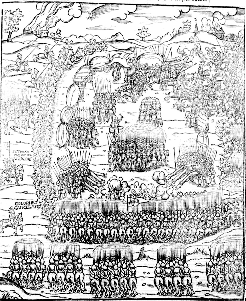 Halley's Comet was visible on 22 August 1531/Aug/05 34 1531/Aug/26 0.58 1531/Aug/14 0.44 1531/Aug/27 1 Battle of Obertyn - Polish Hetman Jan Tarnowski led some 4,800 cavalry, 1,200 infantry and 12 cannon; they were protected inside a tabor (wagon-fort). The Polish infantry and artillery is positioned in the corners, with 9 cannon visible.The Moldavian Army, visible attacking the waggon fort, had 20,000 cavalry and 50 canons at the battle.